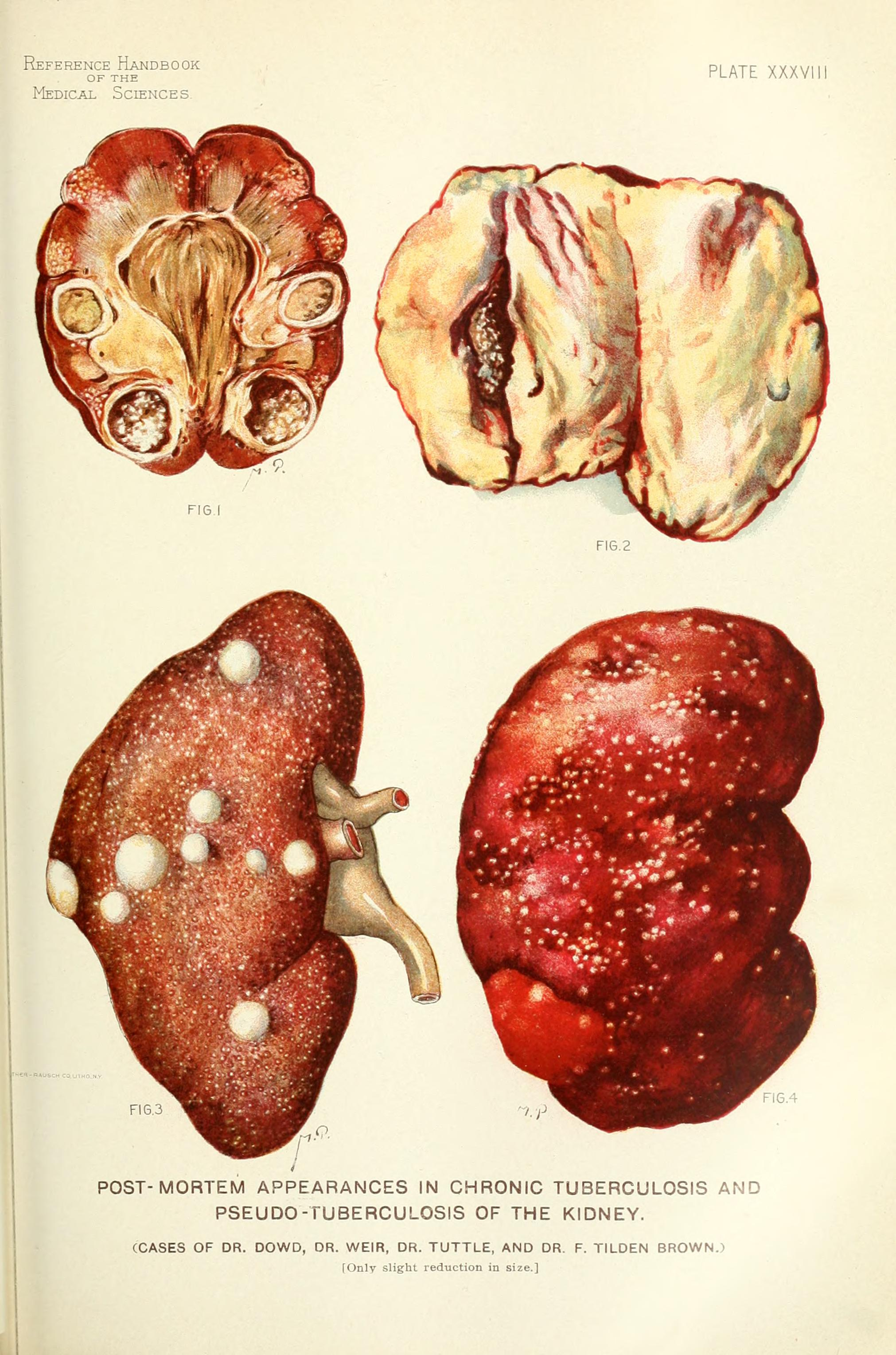 Left: Pseudotuberculosis of kidney, Right: Subacute renal tuberculosis Title: A Reference handbook of the medical sciences embracing the entire range of scientific and practical medicine and allied science Year: 1900 (1900s) Authors: Buck, Albert H. (Albert Henry), 1842-1922 Subjects: Medicine -- Dictionaries Publisher: New York W. Wood and company Text Appearing Before Image: FIG.2 Text Appearing After Image: FIG.4 POST-MORTEM APPEARANCES IN CHRONIC TUBERCULOSIS ANDPSEUDO-TUBERCULOSIS OF THE KIDNEY. (CASES OF DR. DOWD, DR. WEIR, DR. TUTTLE, AND DR. F. TILDEN BROWN.) (Only slight reduction in size.) REFERENCE HANDBOOK OF THE MEDICAL SCIENCES. Kiduejrs.Kidneys. different times of various regional tuberculoses. Threeniontlis later Iiis tuberculous right testicle was removed.Altiiough he had never experienced any urinary symp-toms. I examined liis urine before the last operation, andfimnd tubercle bacilli in each of four mountings: I thenexamined him more closely in refeience to vesical or renalsvmptoms, but with negative resull. Hence I was ledtil infer that the bacilli must have come from the urethra,prostate, or seminal vesicles. To test it, some two weekslater the urine was collected by a sterilized catheter,allowing an ounce, for cleansing the eye, to run off un-caught. As before, the lu-ine by gross inspection wasquite clear by centrifugal sedimentation; enough puscorpuscles were obtaine